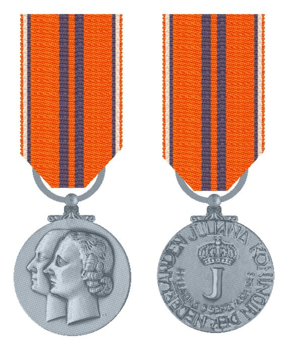 Coronation Medal 1948 Netherlands